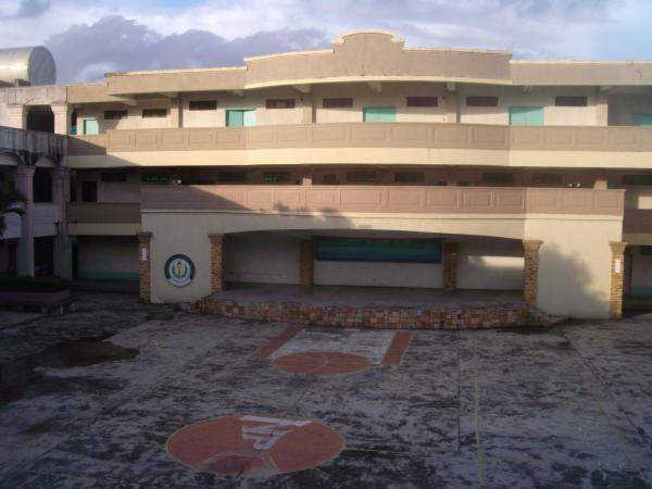 Navotas Polytechnic College, Navotas City, Philippines